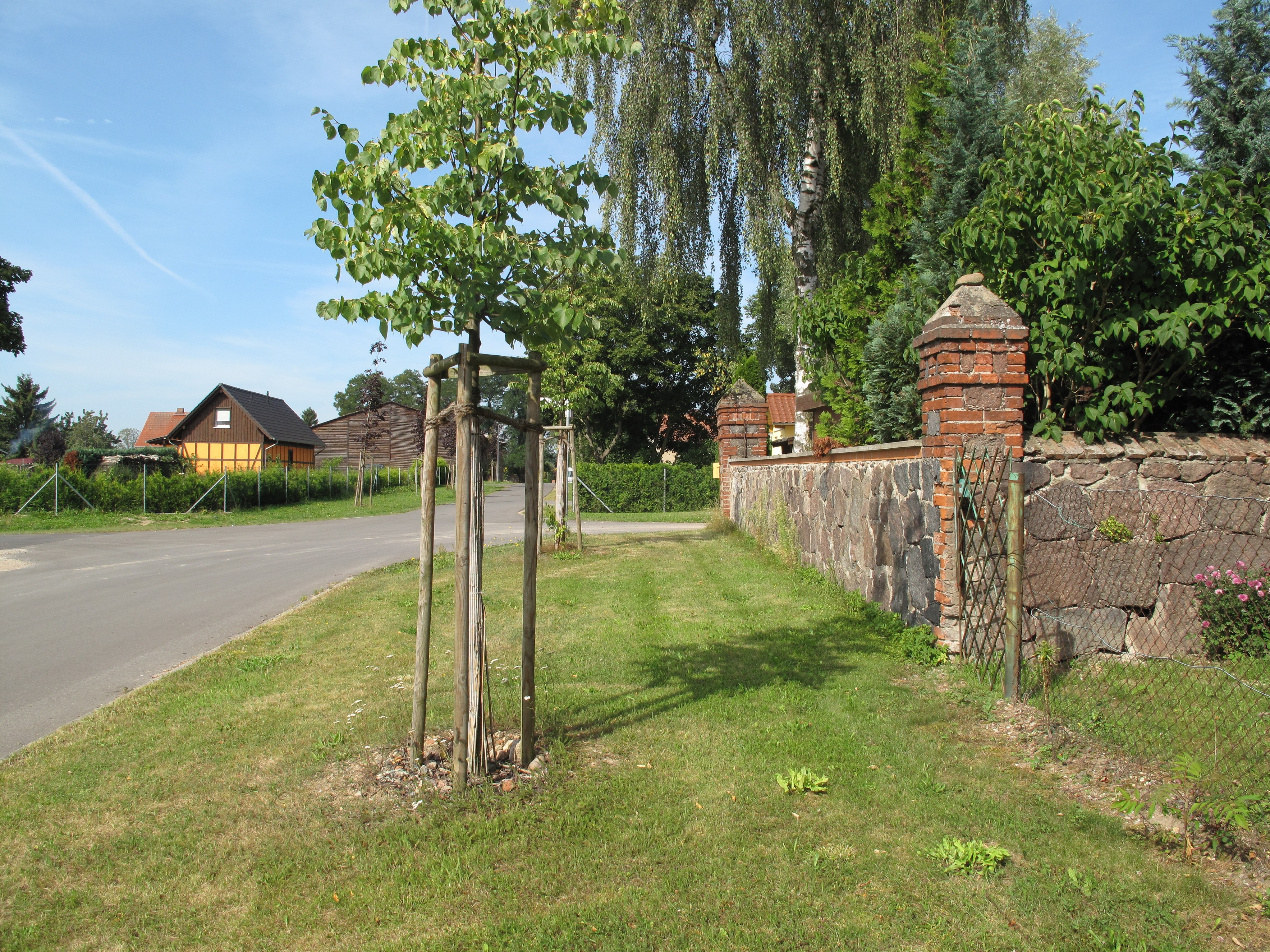 Ernsthof is a hamlet of Grunow, a village of the municipality Oberbarnim in the District Märkisch-Oderland, Brandenburg, Germany. Ernsthof was founded in 1833 as folwark of Grunow.